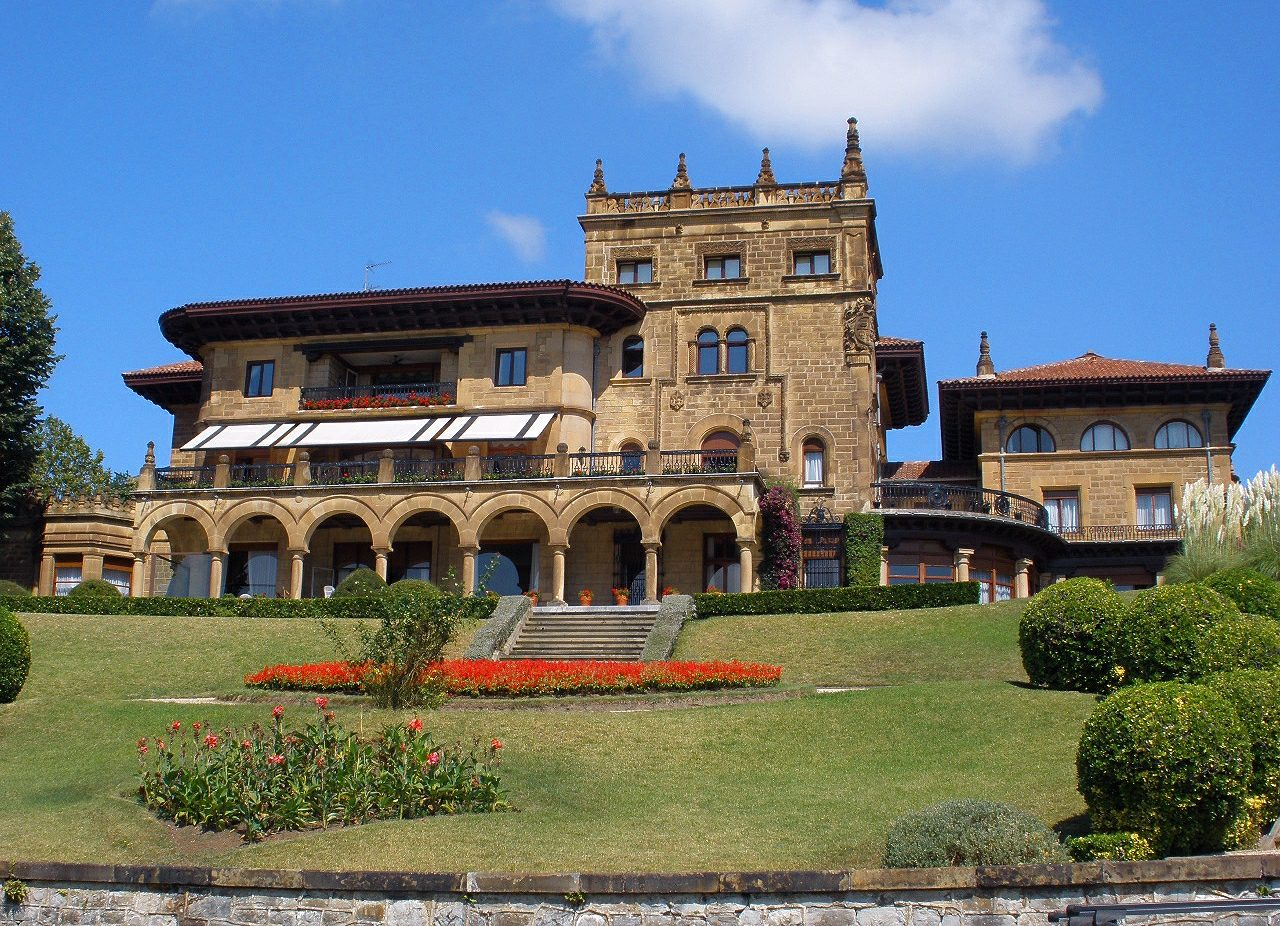 Palacio Lezama-Leguizamón, en Neguri, Guecho (Vizcaya)